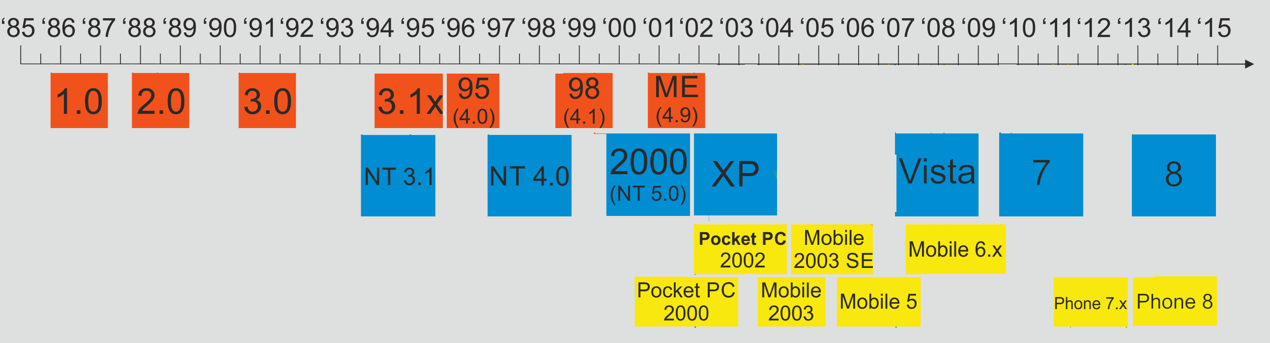 This graphic serves to illustrate the complete family of Microsoft's Windows operating systems. It also replaces the previous work I've done, as this one is current and more accurate. Made with CorelDraw 16. I tried saving in .SVG but it always showed bugs when rendering in Wikimedia. This is why I'm going to replace the image on the Windows article with this .PNG version.